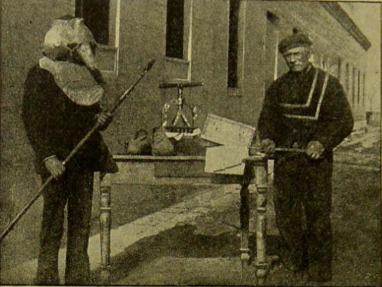 Plague mask and tools for disinfecting letters discovered on Poveglia island by Theodor Weyl in 1889.